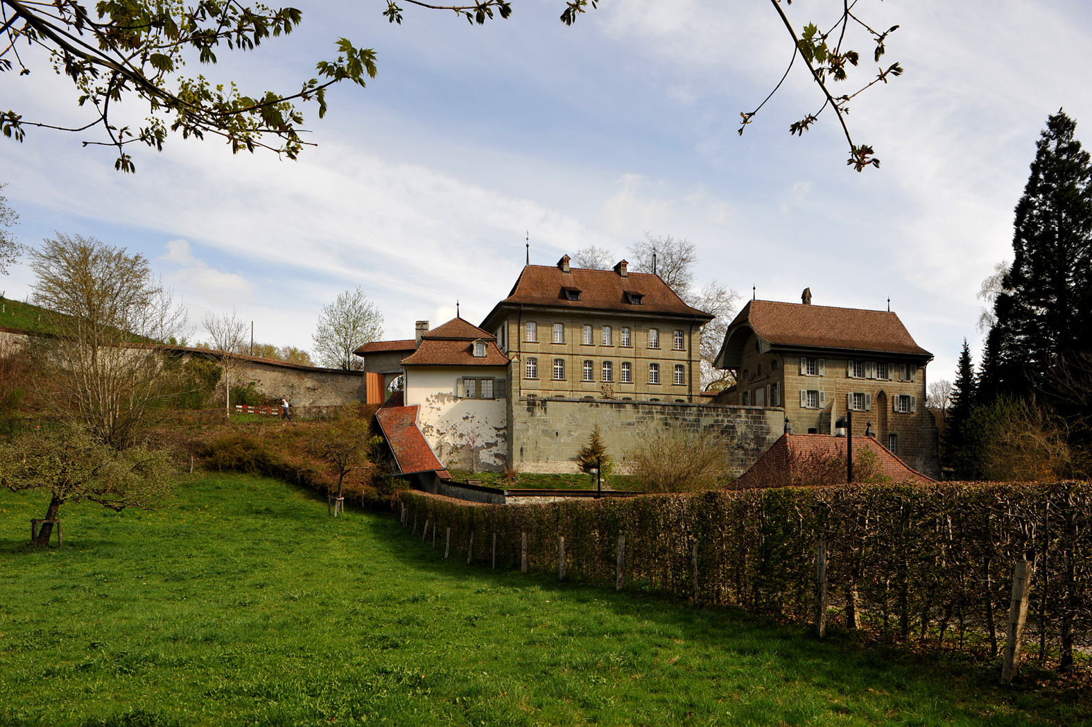 Abbey Altenryf in Hauterive; apartment house and earlier hostel; Fribourg, Switzerland.